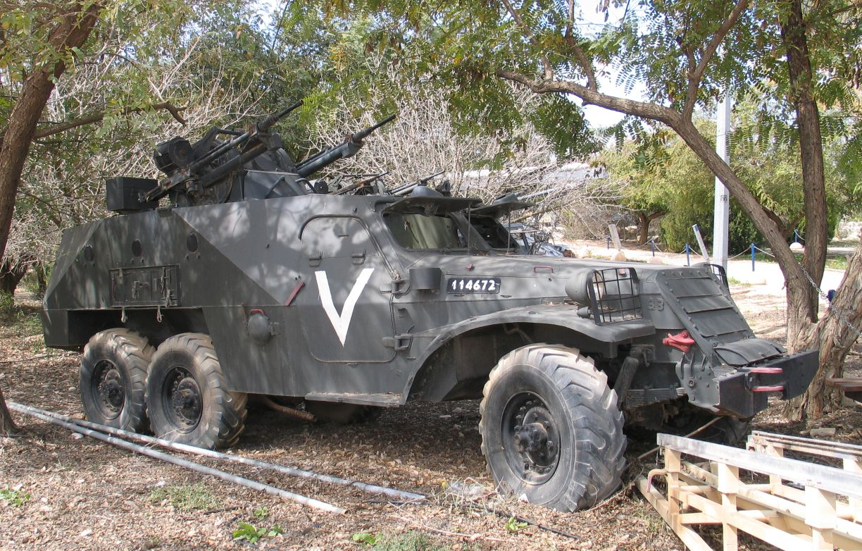 Description: BTR-152 TCM-20 at Muzeyon Heyl ha-Avir, Hatzerim, Israel. 2006. Source: Photo by me, User:Bukvoed.